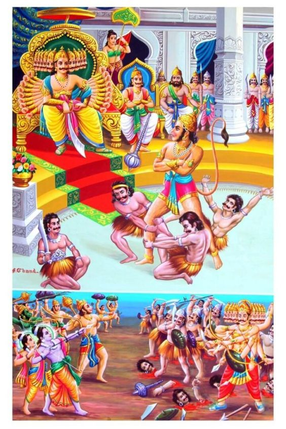 India 50's Print ANGADA SHOWS HIS STRENGTH Ramayana 52592